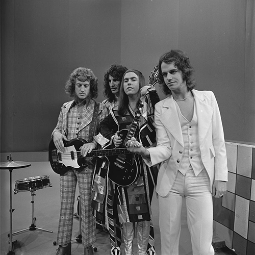 Slade in AVRO's TopPop (Dutch television show) in 1974